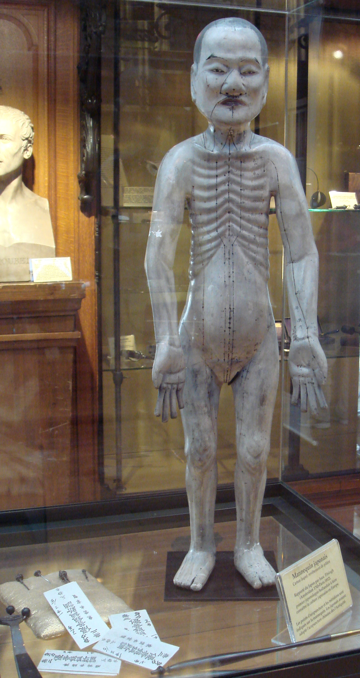 Japanese acupuncture manequin brought to Paris by the scholar and former employee of the Dutch East India Company Isaac Titsingh (1745-1812). Titsingh had received this "Tsoe bosi" in Kyoto from the court physician Ogino Gengai.